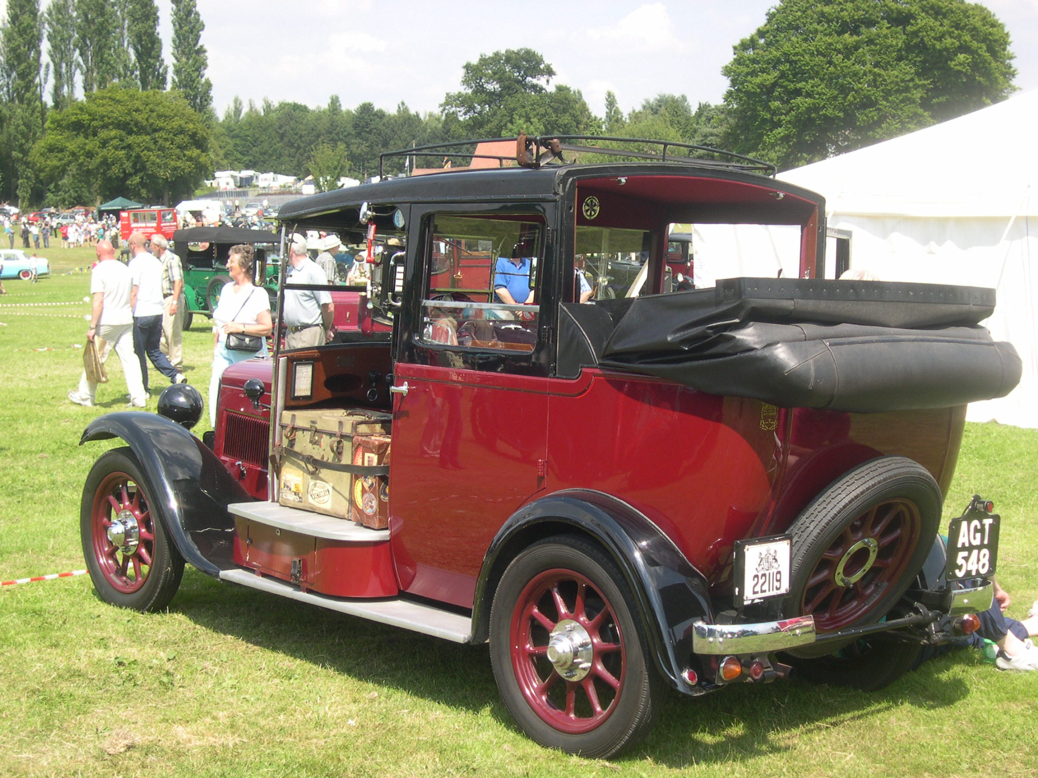 1933 Austin 12 4 Taxi DVLA 1631 cc, first registered 4 May 1933.